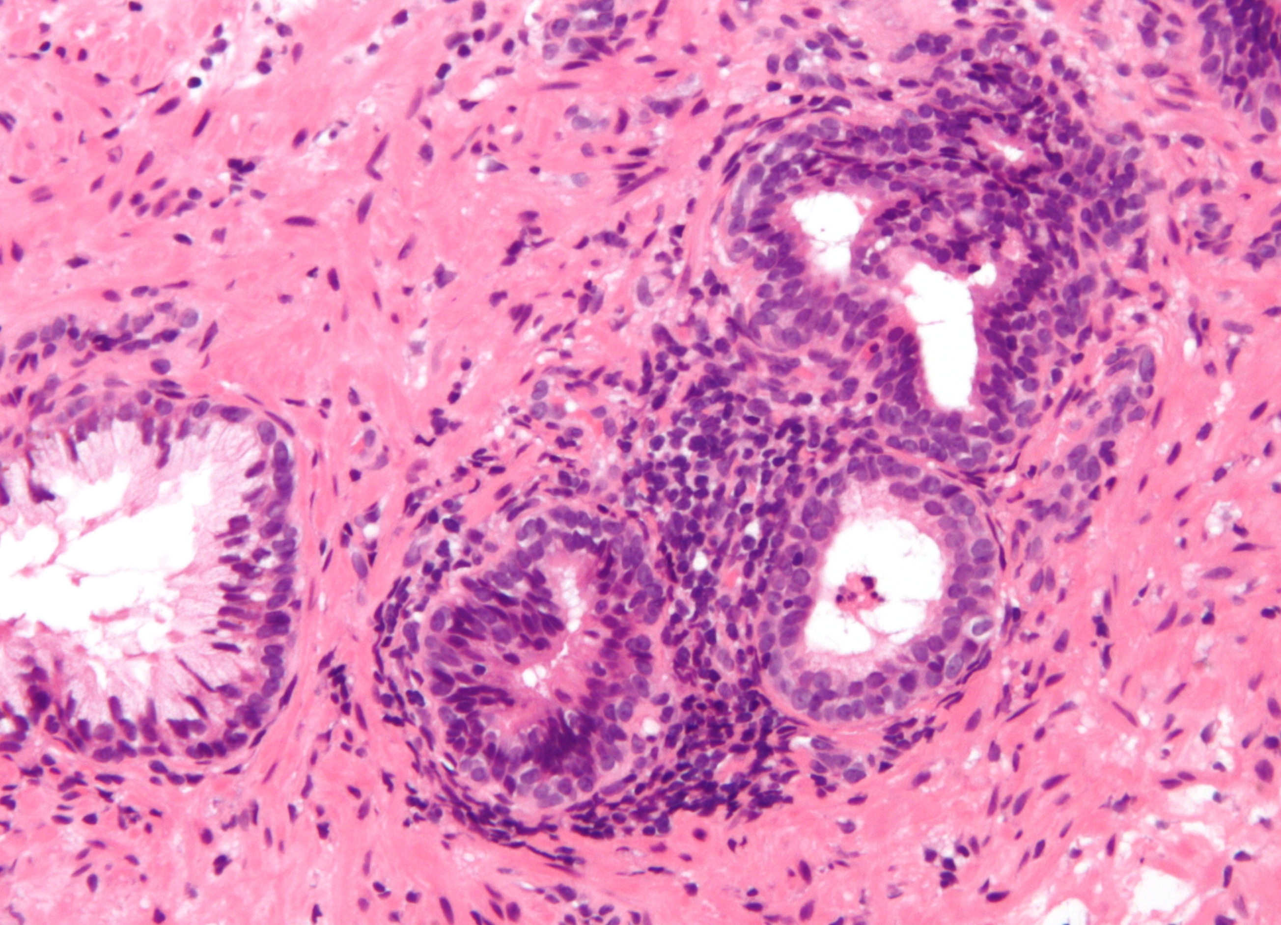 Micrograph of prostate gland with a chronic inflammatory infiltrate. H&E stain. Prostatic inflammation is the pathologic correlate of prostatitis. Prostatitis is a benign cause of PSA elevation, i.e. a high PSA value prompts a biopsy, as cancer is a possibility, yet the cause of the elevated PSA is prostatitis. Related images Granulomatous - low mag. Granulomatous - high mag. Acute inflammation. Chronic inflammation.